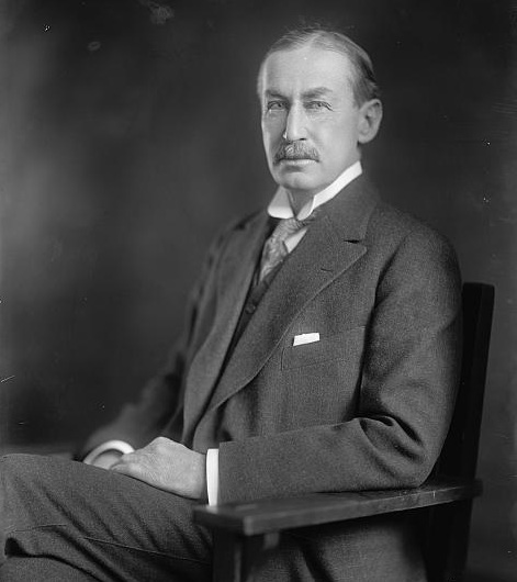 Thomas G. Patten, US Congressman from New York